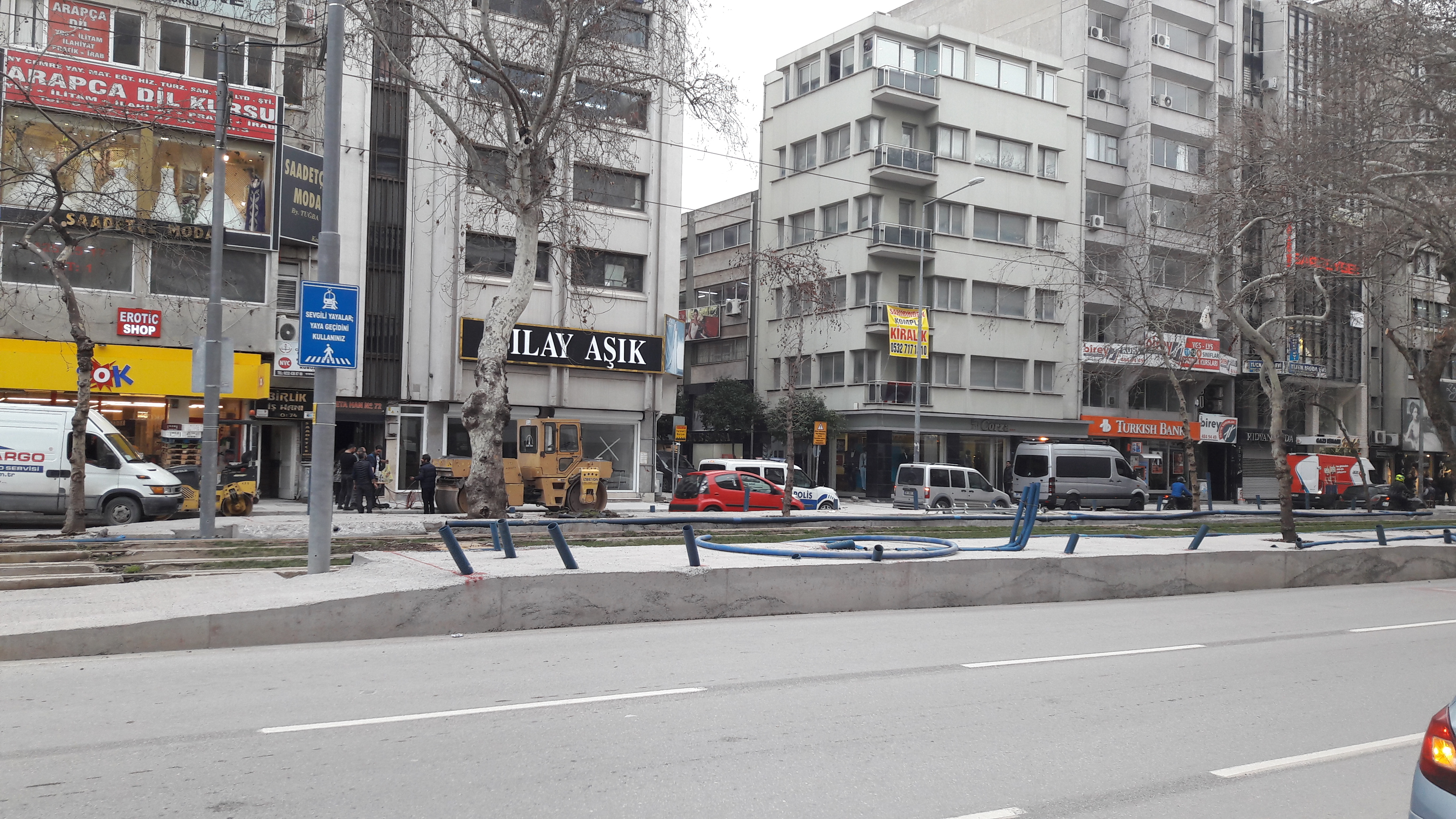 Gazi Bulvari tram station, under construction.